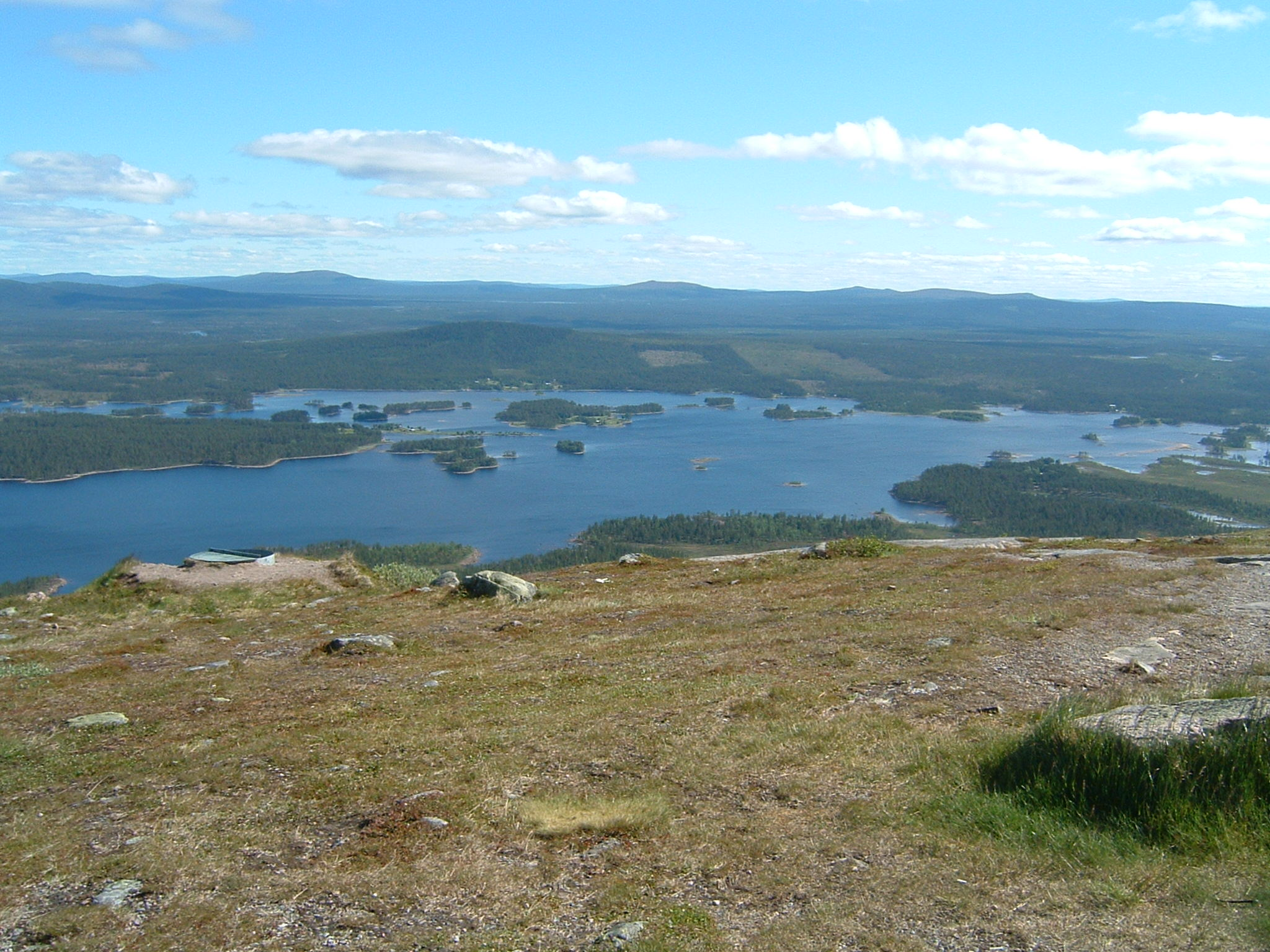 Mountain view from the top of the Galtispuoda low fell nature reserve, Arjeplog Municipality, Sweden.